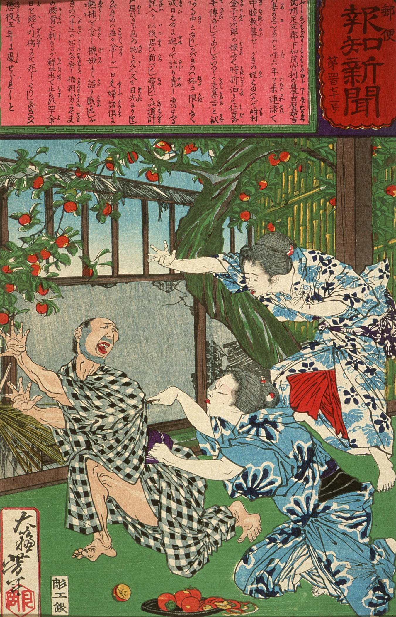 Japan, 4/1875 Series: The Postal News, no. 471 Prints; woodcuts Color woodblock print Herbert R. Cole Collection (M.84.31.190) Japanese Art